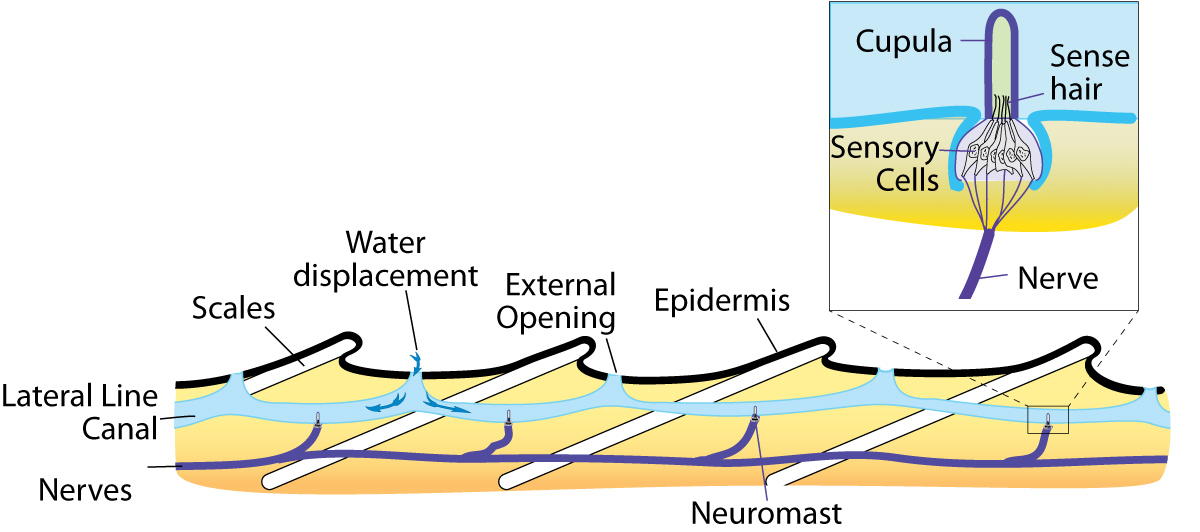 Sketch of the lateral line sensory organ, which is used by fish to sense pressure differences in the water.